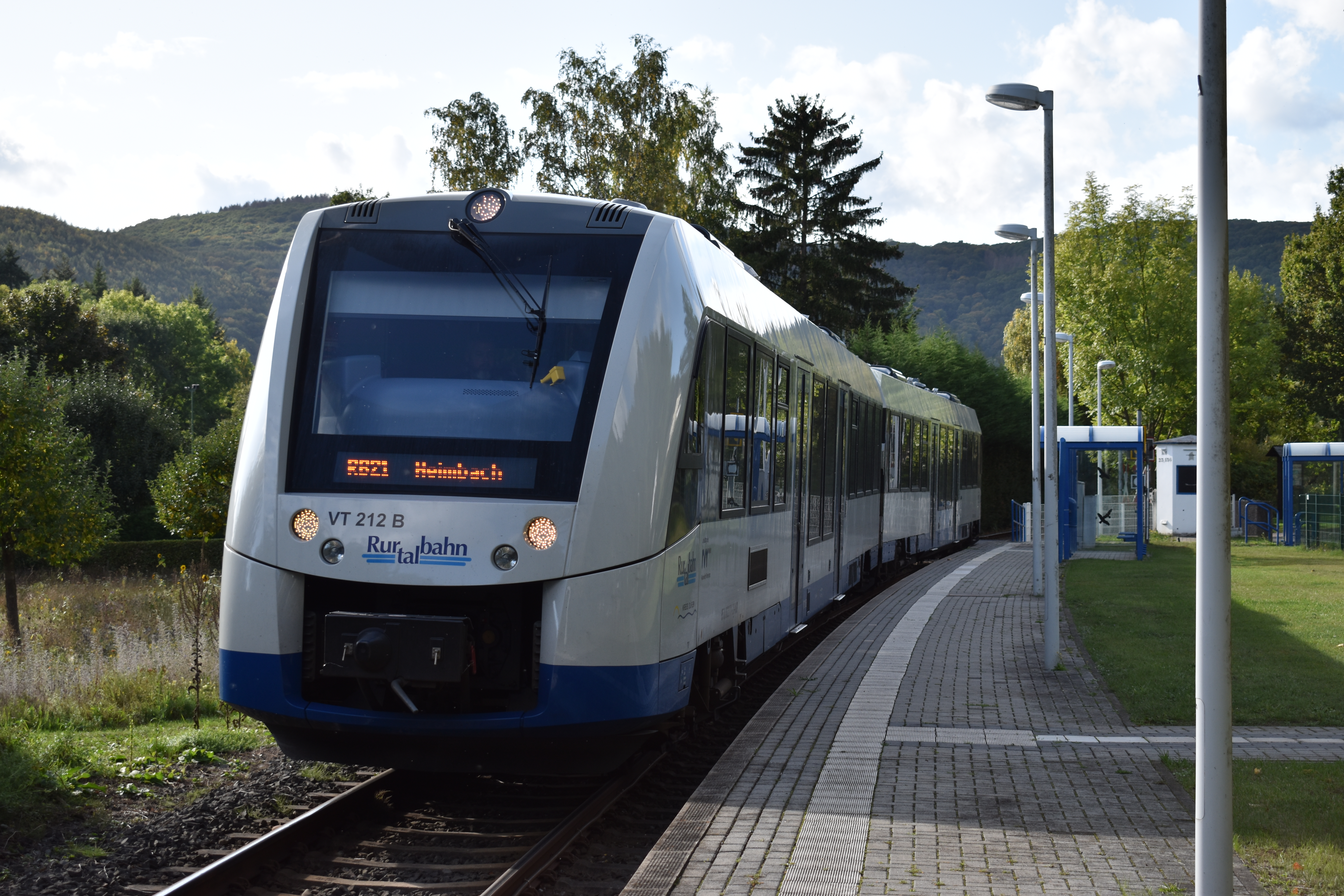 A LINT 54 of the Rurtalbahn on the way to Heimbach at the stop Blens.